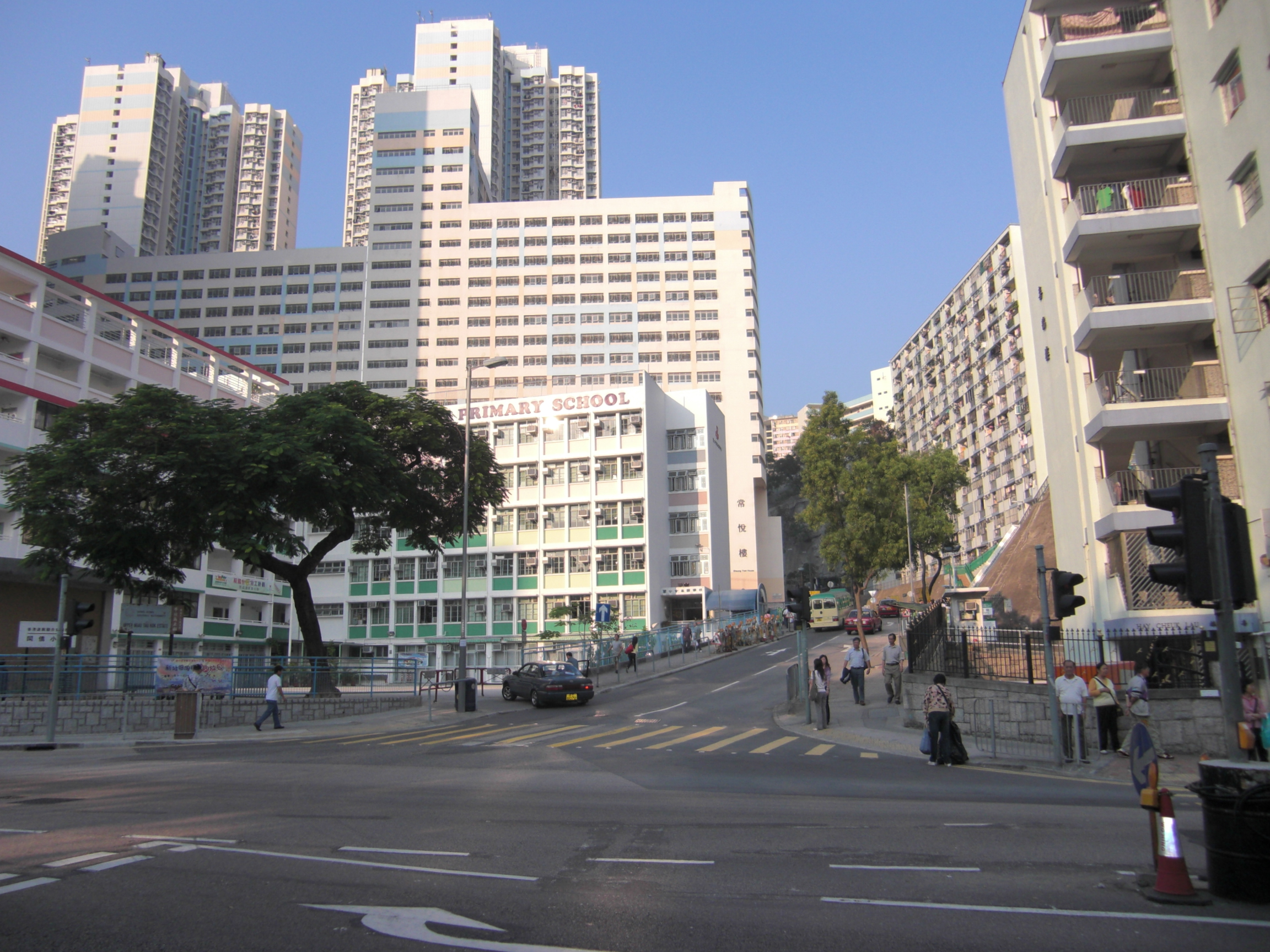 OVERVIEW OF ON SHIN ROAD IN NGAU TAU KOK,HONG KONG